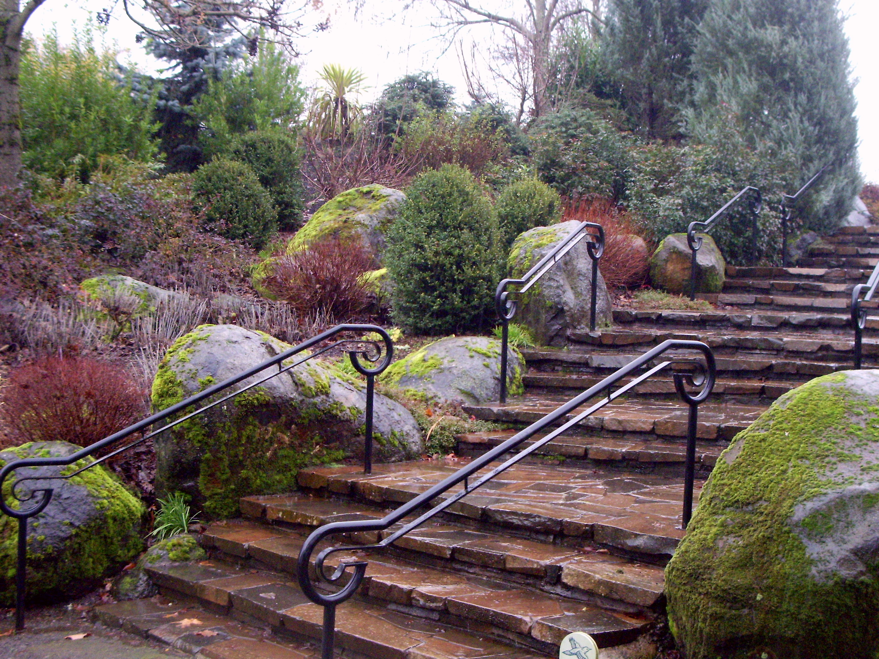 Slate stairway and ornate handrails with the NW garden within Oregon Garden, Oregon, United States.